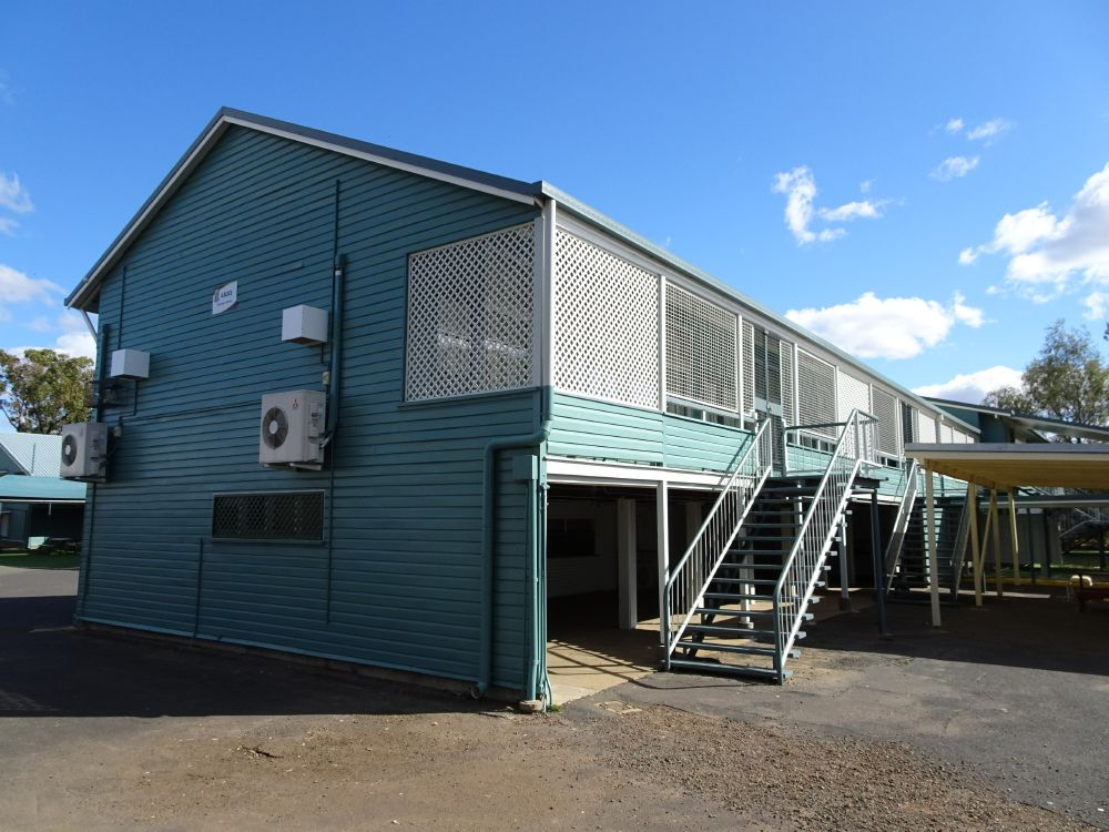 Block A, east end, looking west